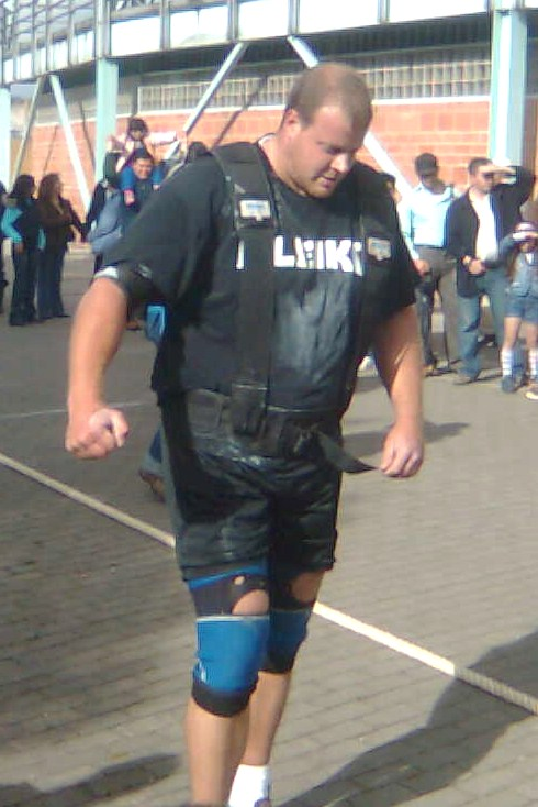 David Ostlund. A strongman from the USA.